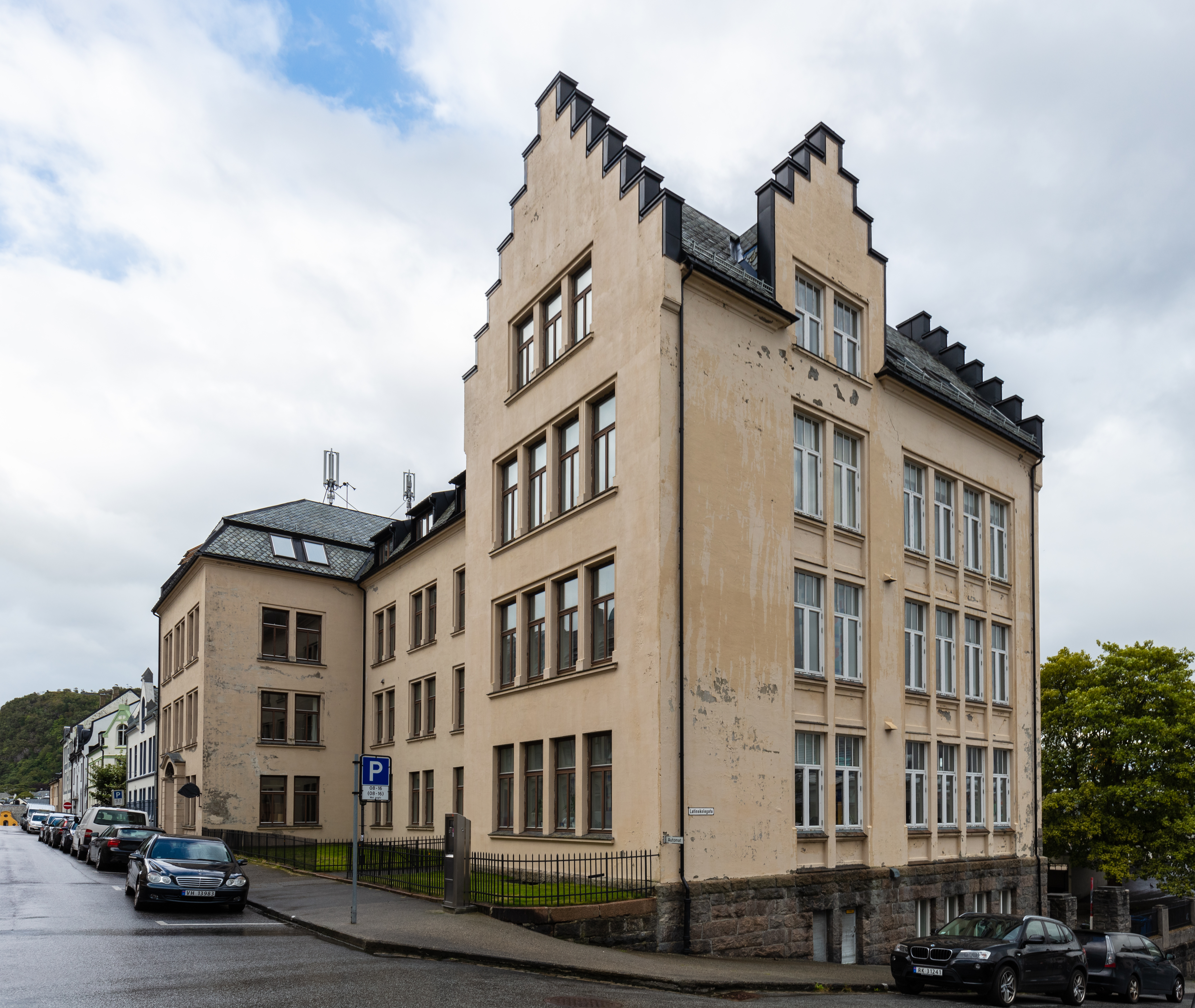 Secundary school Latinskolen, Ålesund, Norway